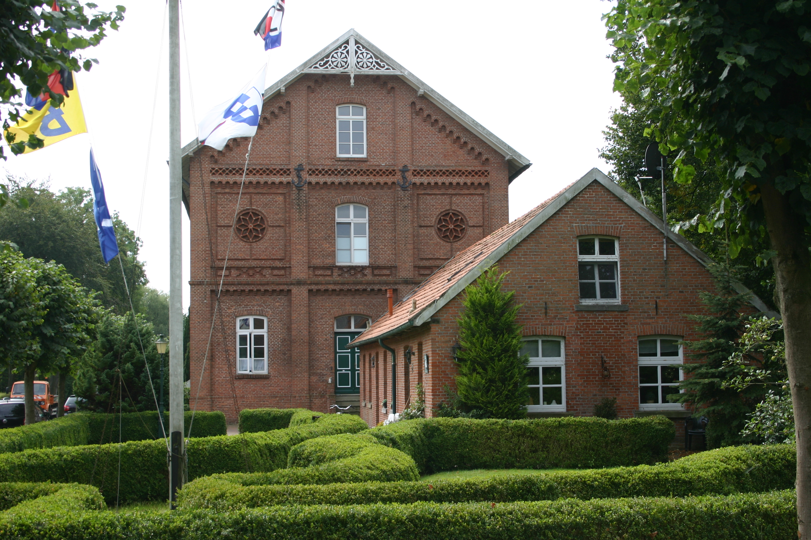 Former maritime school in Timmel, community of Großefehn, district of Aurich, East Frisia, Germany